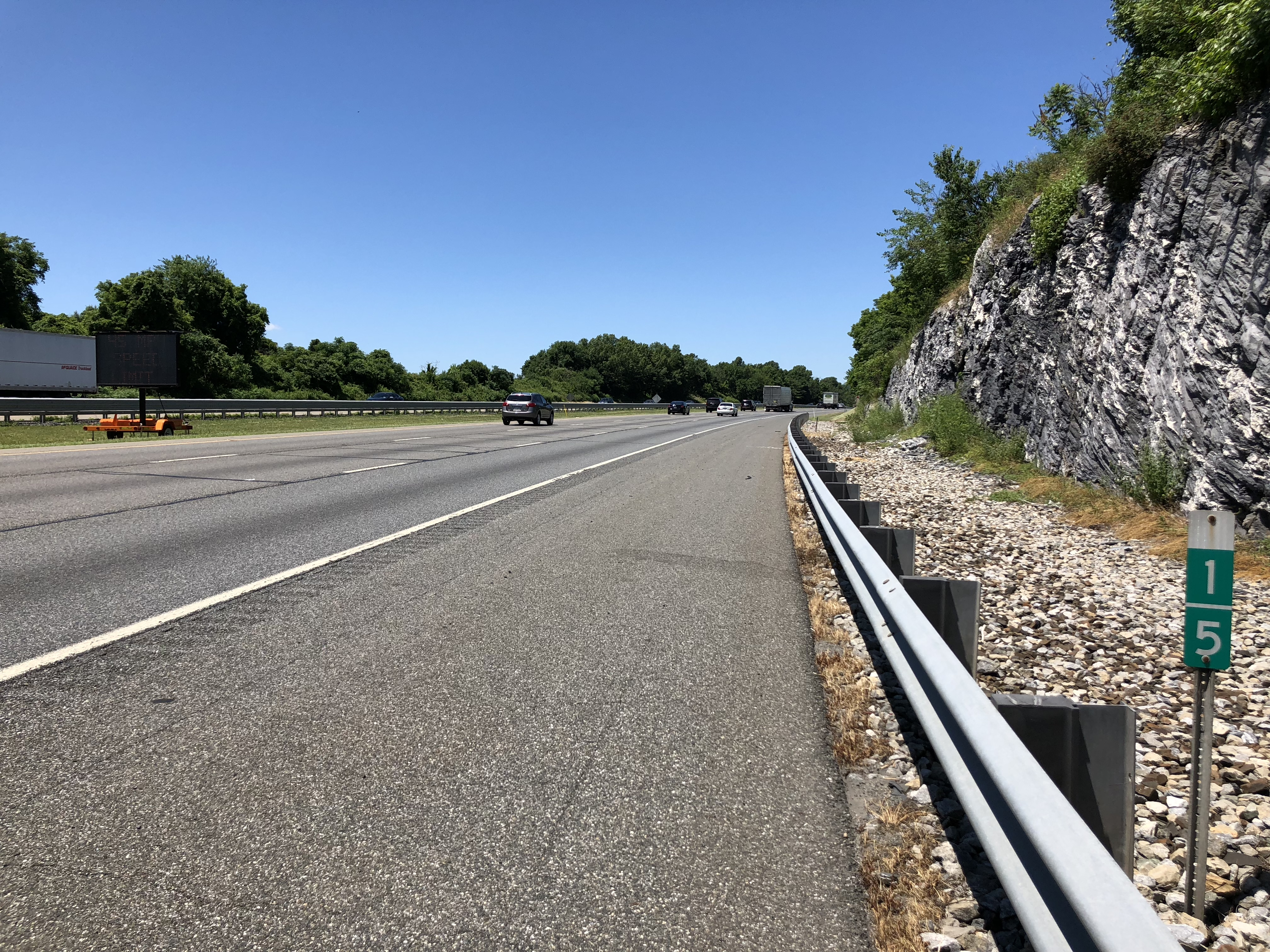 View west along Interstate 78 (Phillipsburg-Newark Expressway) between Exit 3 and the Delaware River Bridge in Alpha, Warren County, New Jersey